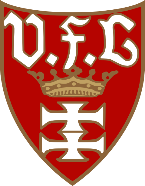 Logo of VfL Danzig